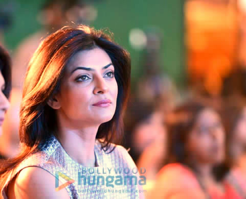 Sushmita Sen at Harmony Foundation's Mother Teresa Memorial Award